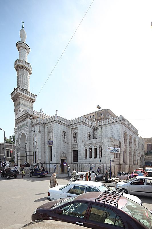 El-Tuba mosque, Damanhur, Ägypten